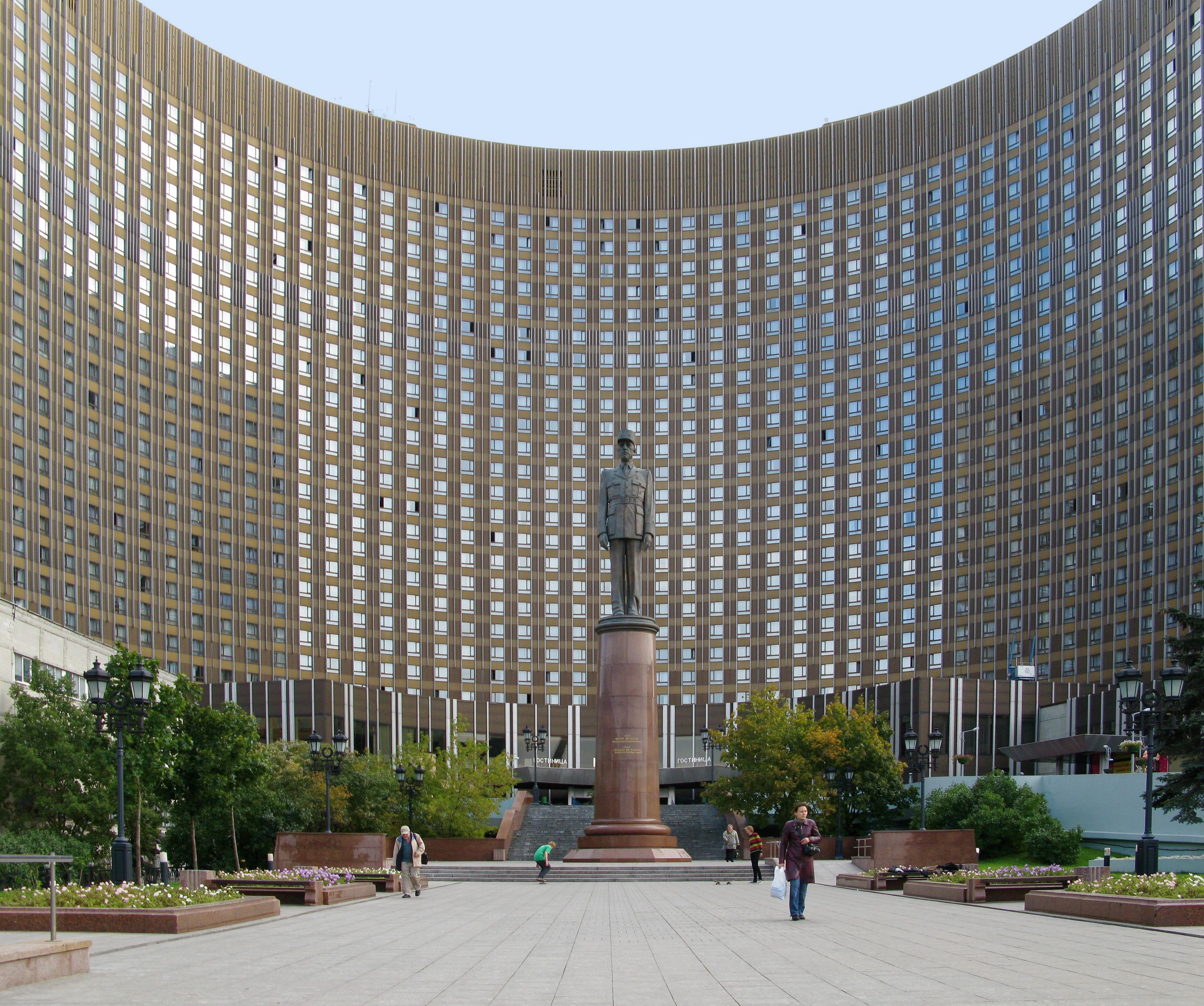 Cosmos Hotel in Moscow. The statue of Charles de Gaulle was erected by the Russians in honor of the French architect who designed the building.